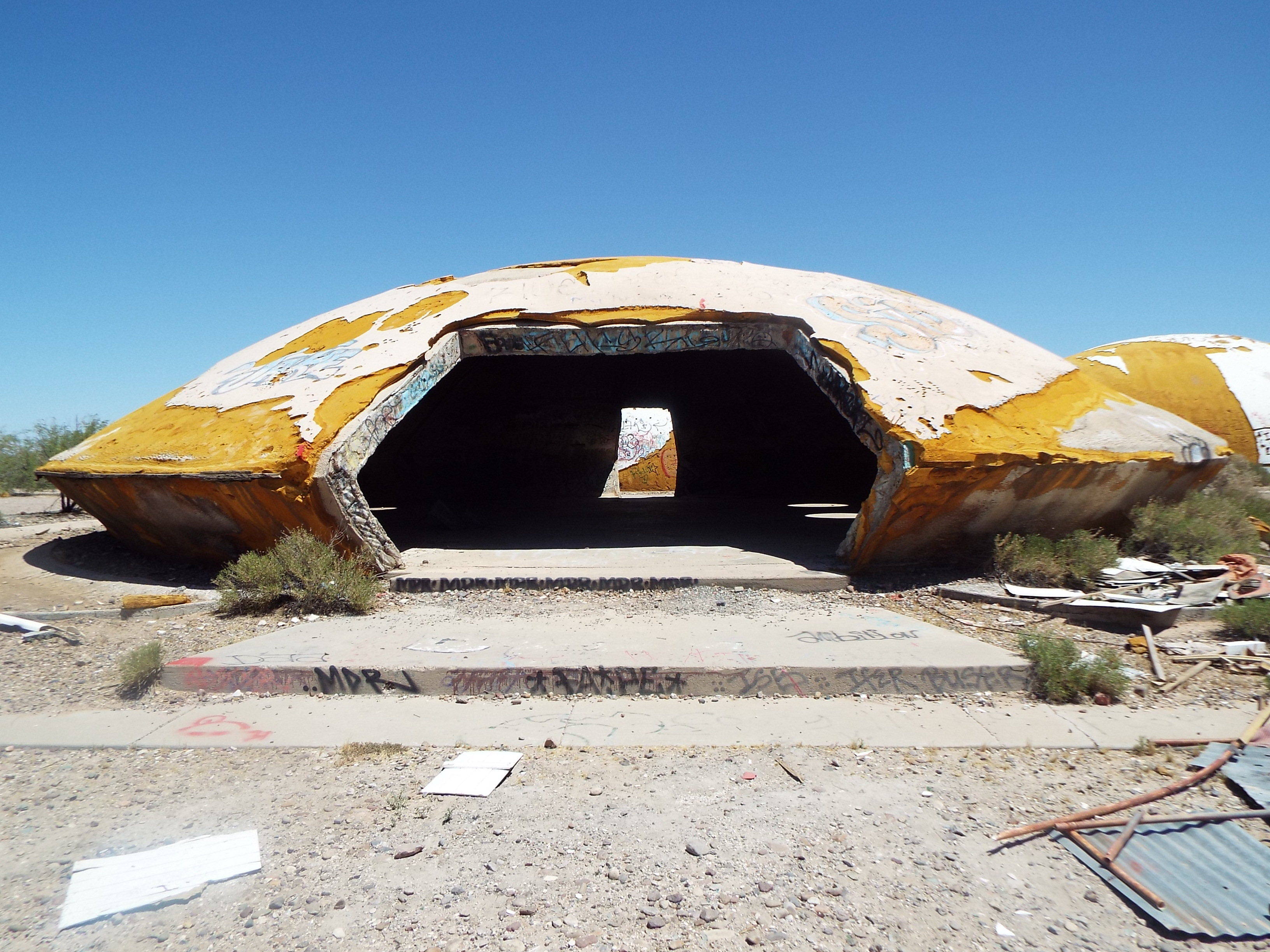 The Casa Grande Domes. The Domes, located on South Thornton Road, were built in the 1970’s for the manufacturing of computers, but were never completed.